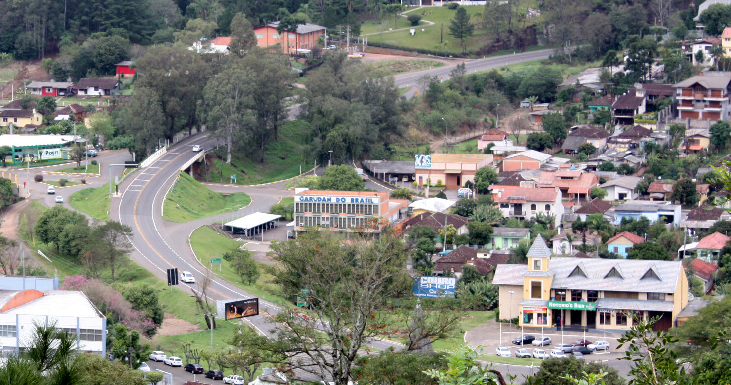 Road RS-115 in Igrejinha, Rio Grande do Sul, Brazil.